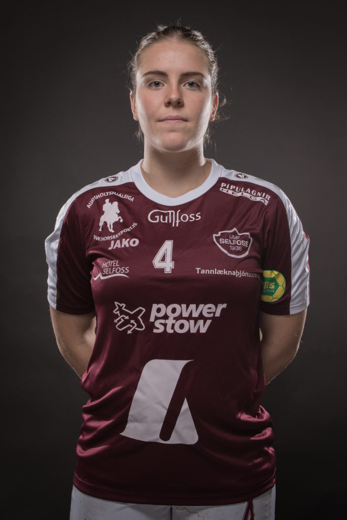 Picture of HrafnhildurHanna